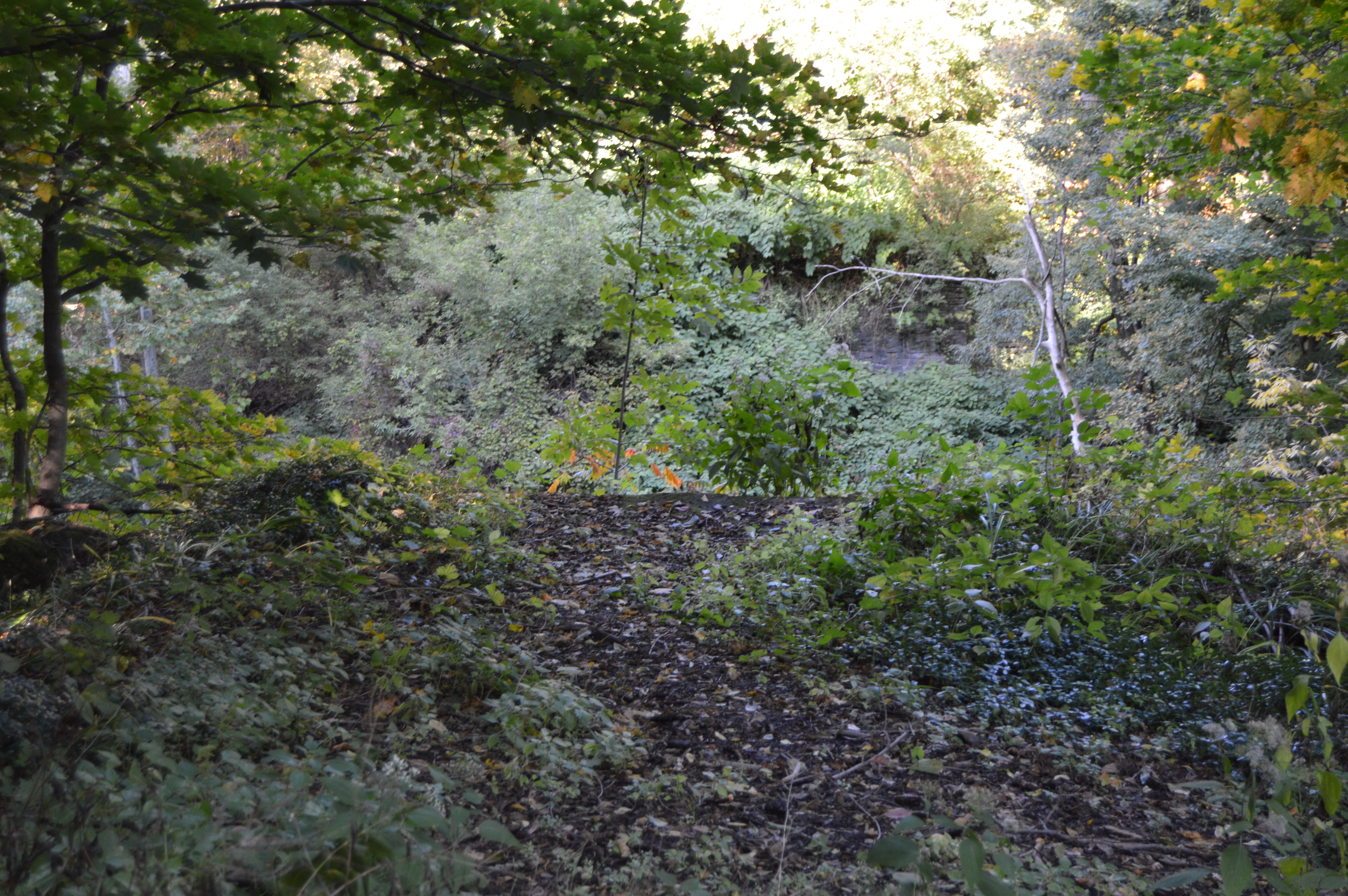 Overview of the site of the Rorig Bridge, which formerly carried Water Street over Chautauqua Creek in Westfield, New York, United States. Built in 1883, it was listed on the National Register of Historic Places in 1983; although destroyed, it has not yet been removed from the Register.